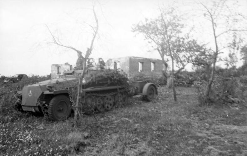 Ammunition transporter SdKfz 252 (variant of SdKfz 250)